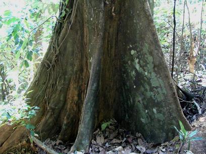 Hopea beccariana Base du tronc, Bukit Nanas Forest Reserve